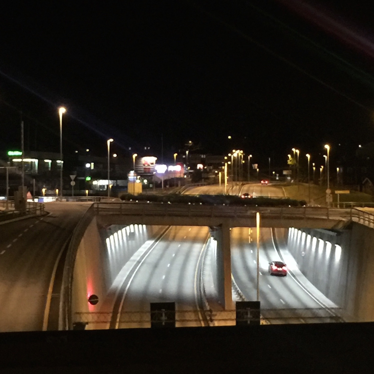 Vågsbygd, Kristiansand